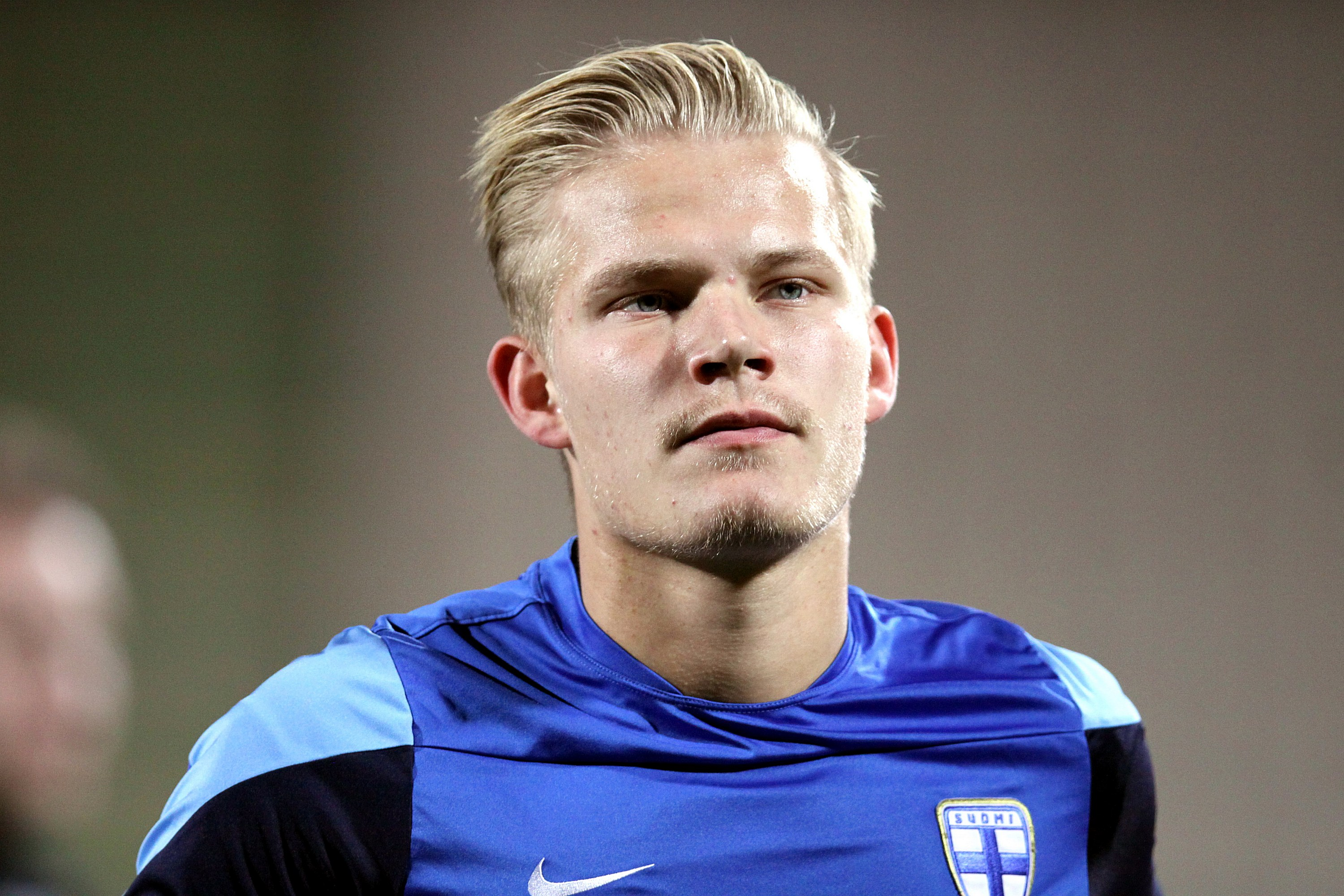 2017 UEFA European Under-21 Championship qualification – Austria U-21 (red shirts) vs. Finland U-21 (blue shirts) 2-0 (0-0) – 2015-11-13 in Vienna, Austria Arena – The photo shows Joel Pohjanpalo.